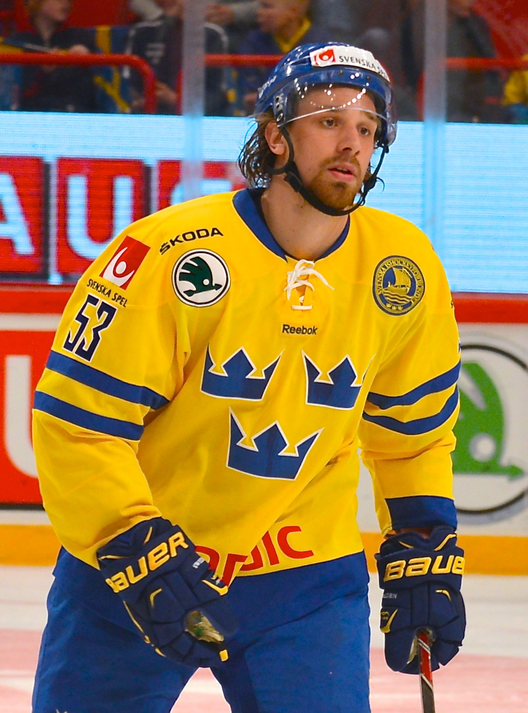 Andreas Thuresson during Oddset Hockey Games against Russia (2-0) at the Ericsson Globe in Stockholm on May 4th, 2014.